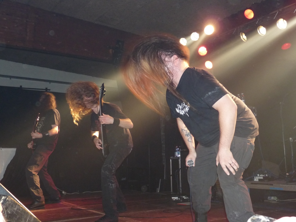 The band Cannibal Corpse headbanging at their concert in Innsbruck/Tyrol, 9th February 2009